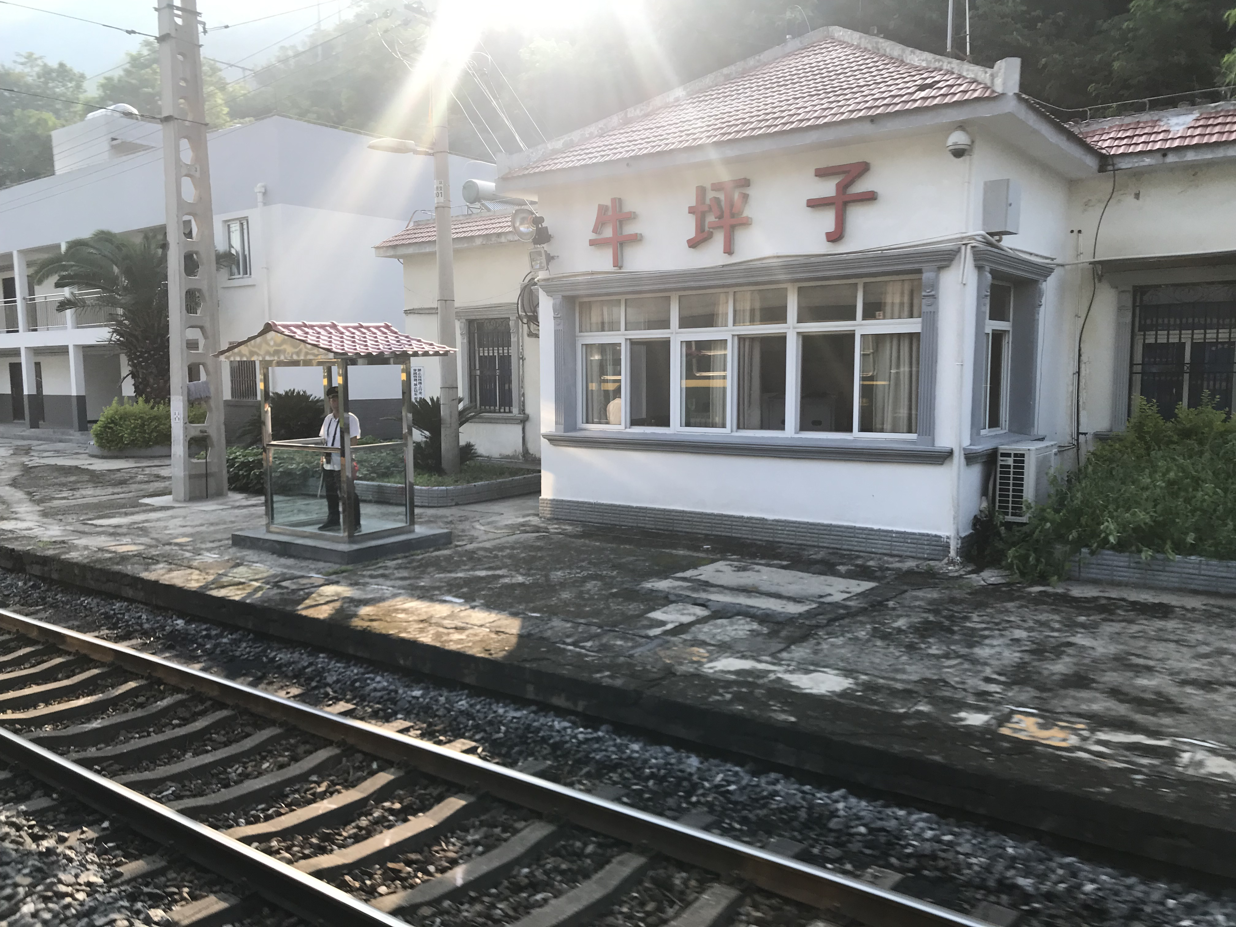 201908 Station Building of Niupingzi